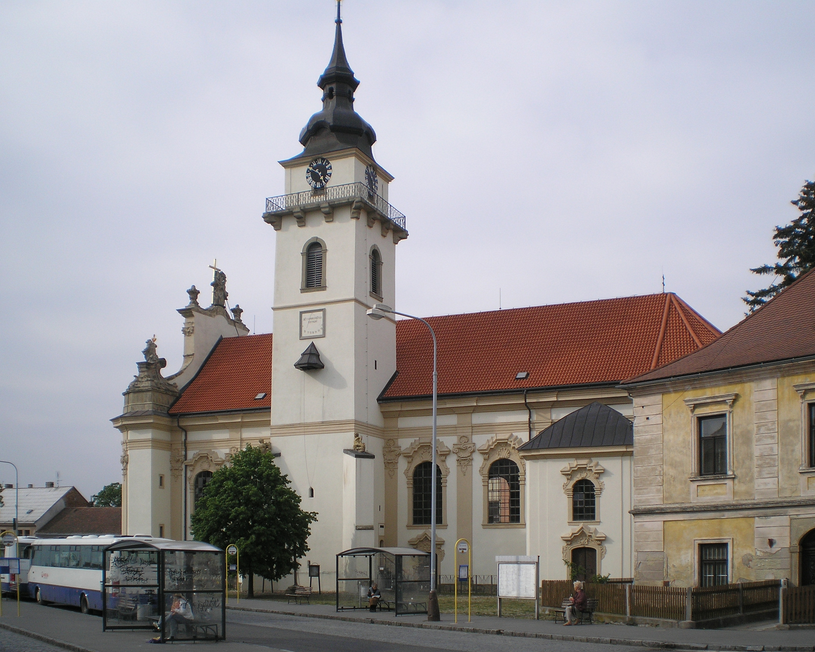 Church s. Bartholomeo Heřmanův Městec from south